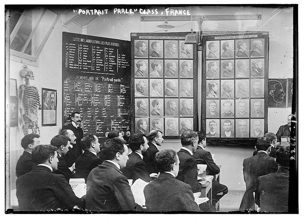 Portrait Parle class, France (LOC) Bain News Service,, publisher. Portrait Parle class, France [between ca. 1910 and ca. 1915] 1 negative : glass ; 5 x 7 in. or smaller. Notes: Title from data provided by the Bain News Service on the negative. Photo shows class studying the Bertillon method of criminal identification, developed by the French criminologist Alphonse Bertillon (1853-1914). (Source: Flickr Commons project, 2010) Forms part of: George Grantham Bain Collection (Library of Congress). Subjects: France Format: Glass negatives. Repository: Library of Congress, Prints and Photographs Division, Washington, D.C. 20540 USA, General information about the Bain Collection is available at Persistent URL: Call Number: LC-B2- 2266-12